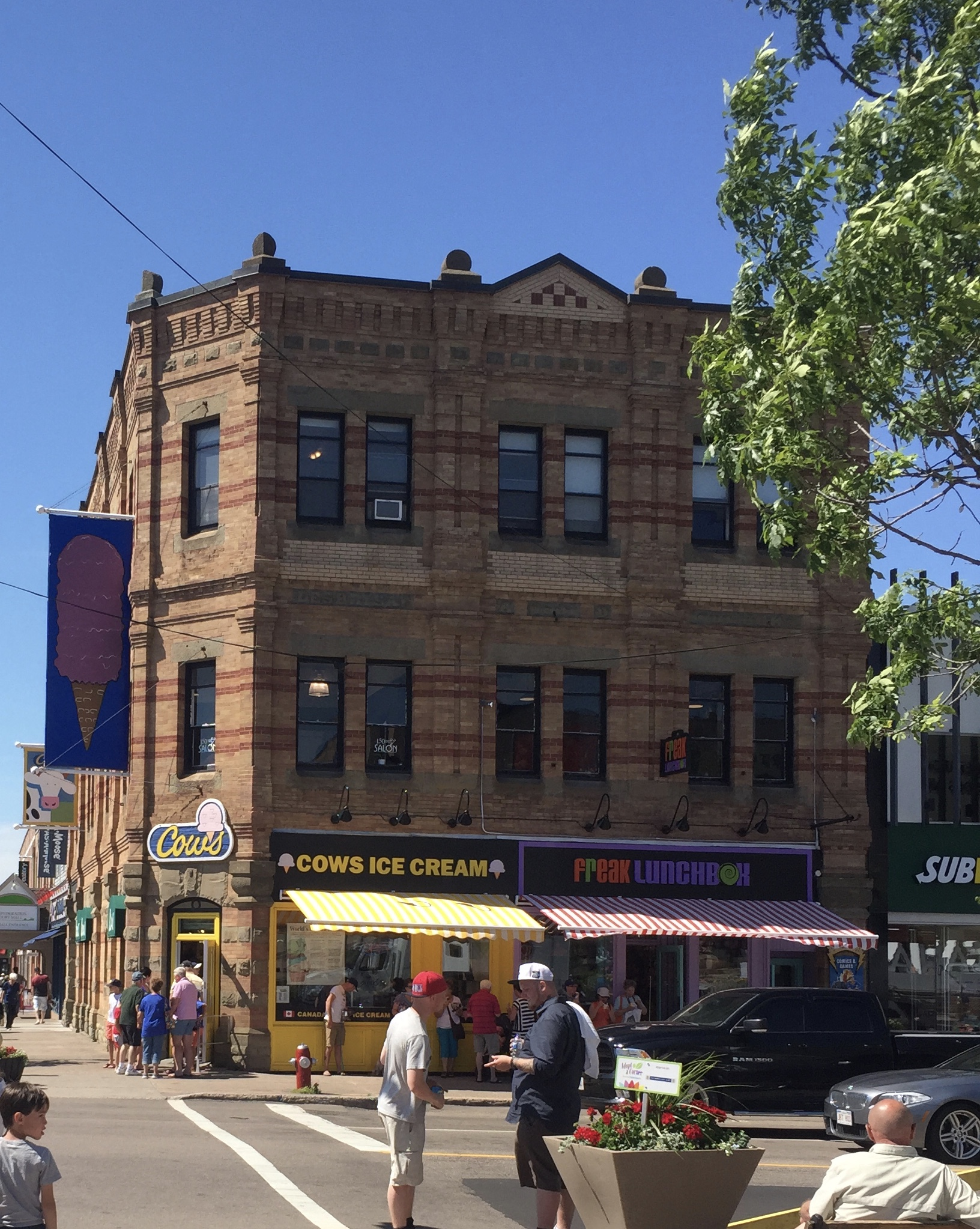 Cows Creamery Location, Charlottetown, PEI, Canada (not the first)